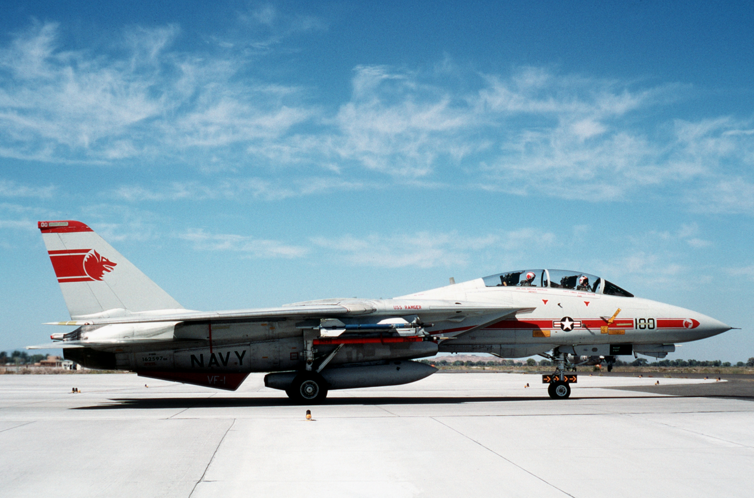 A U.S. Navy Grumman F-14A Tomcat (BuNo 162597) from fighter squadron VF-1 Wolf Pack at the Naval Air Station Fallon, Nevada (USA), in 1988.